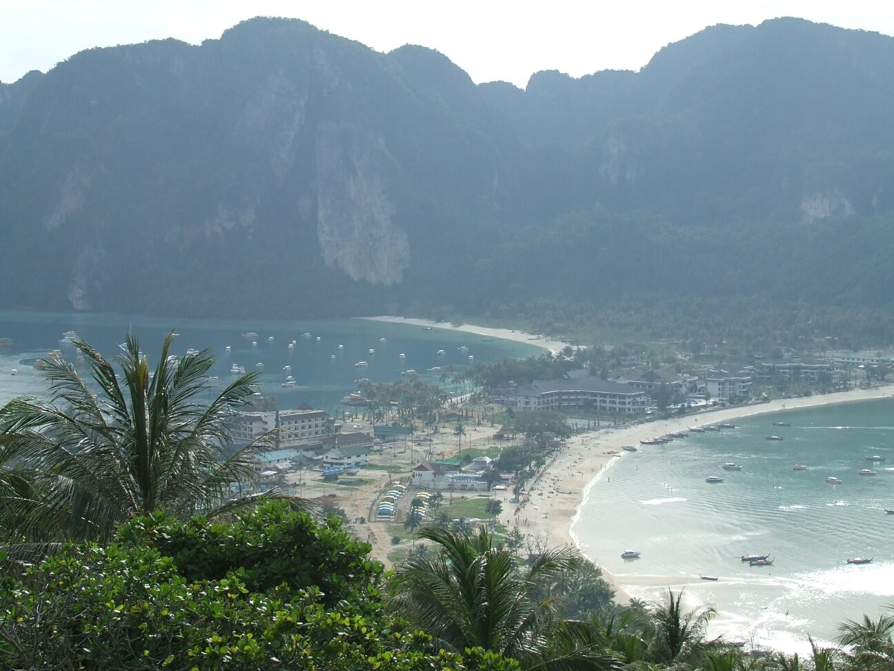 Isthmus of Koh Phi Phi, Thailand Photo taken 2006 by User:Neitram